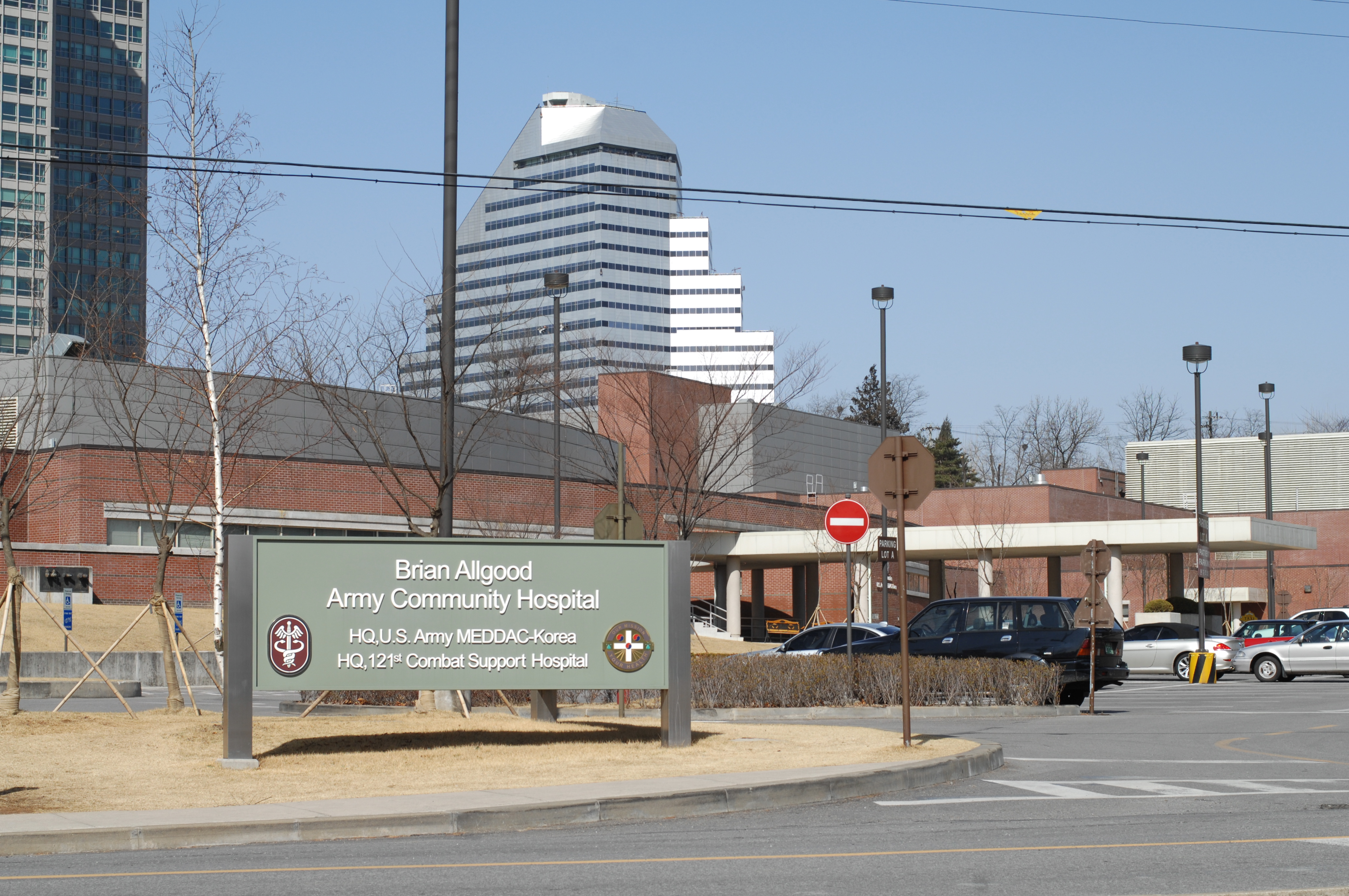 Brian Allgood Army Community Hospital, Yongsan Garrison, Seoul, South Korea U.S. Army, Installation Management Command - Korea Region, image archive